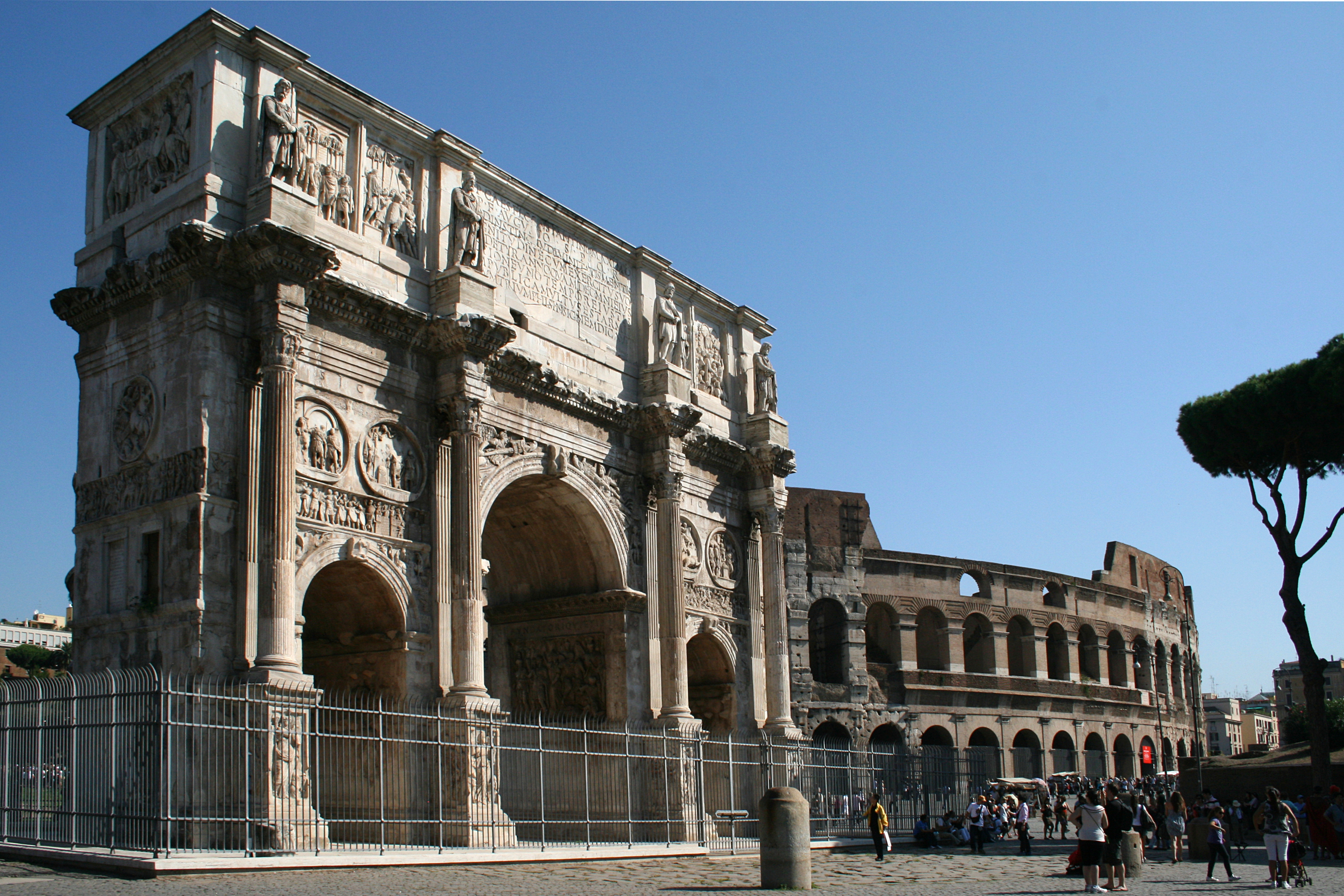 Arch of Constantine and the Colosseum - Rome, Italy.